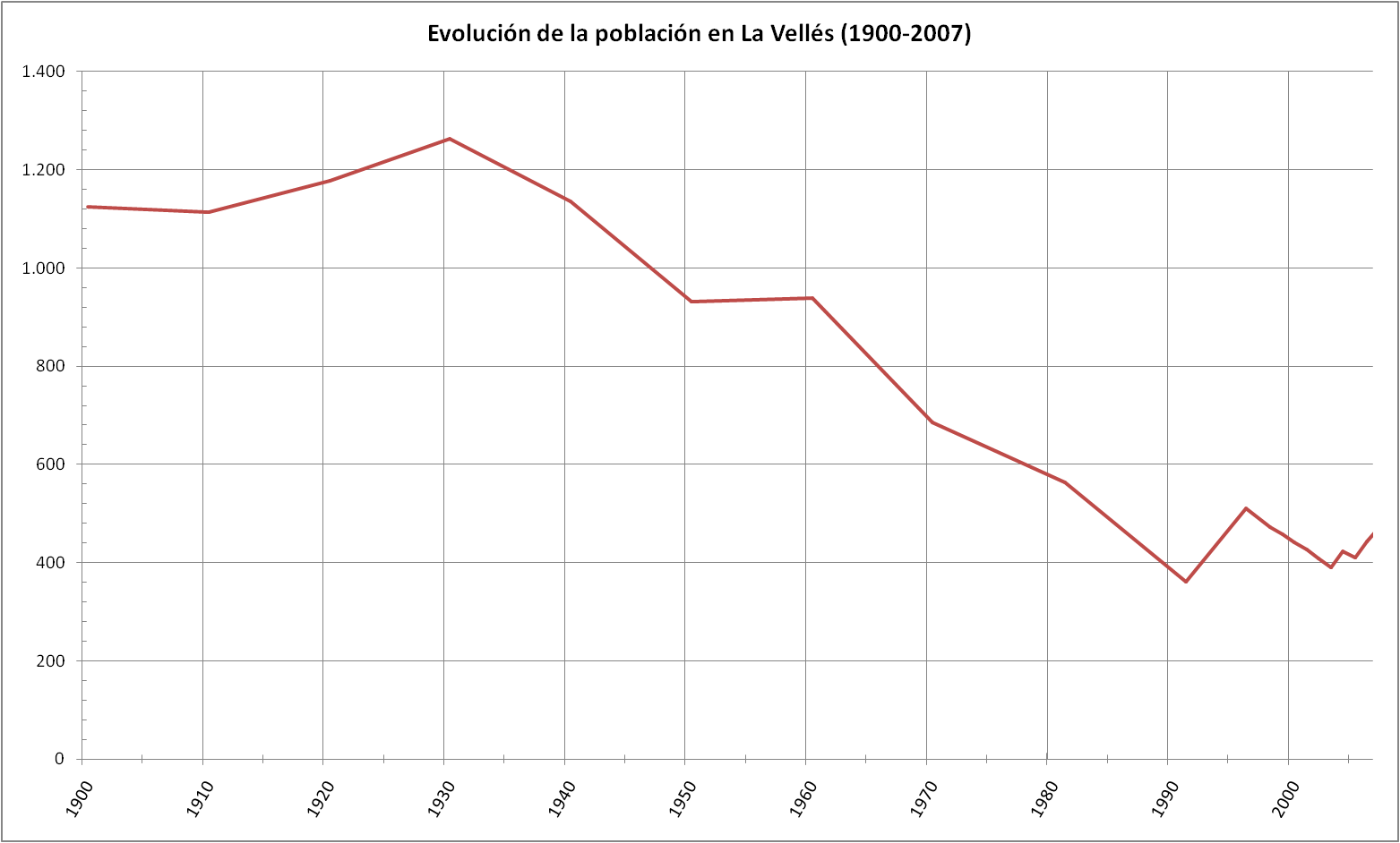 La Vellés' population (España) (1900-2007). Self-made chart with data obtained from Spain's Instituto Nacional de Estadística